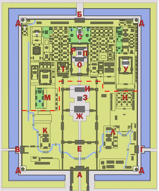 Plan of the Forbidden City. Self created via Inkscape. This labelled version for use in Forbidden City. Unlabelled version is found at Image:Forbidden_city_map_wp_0.png